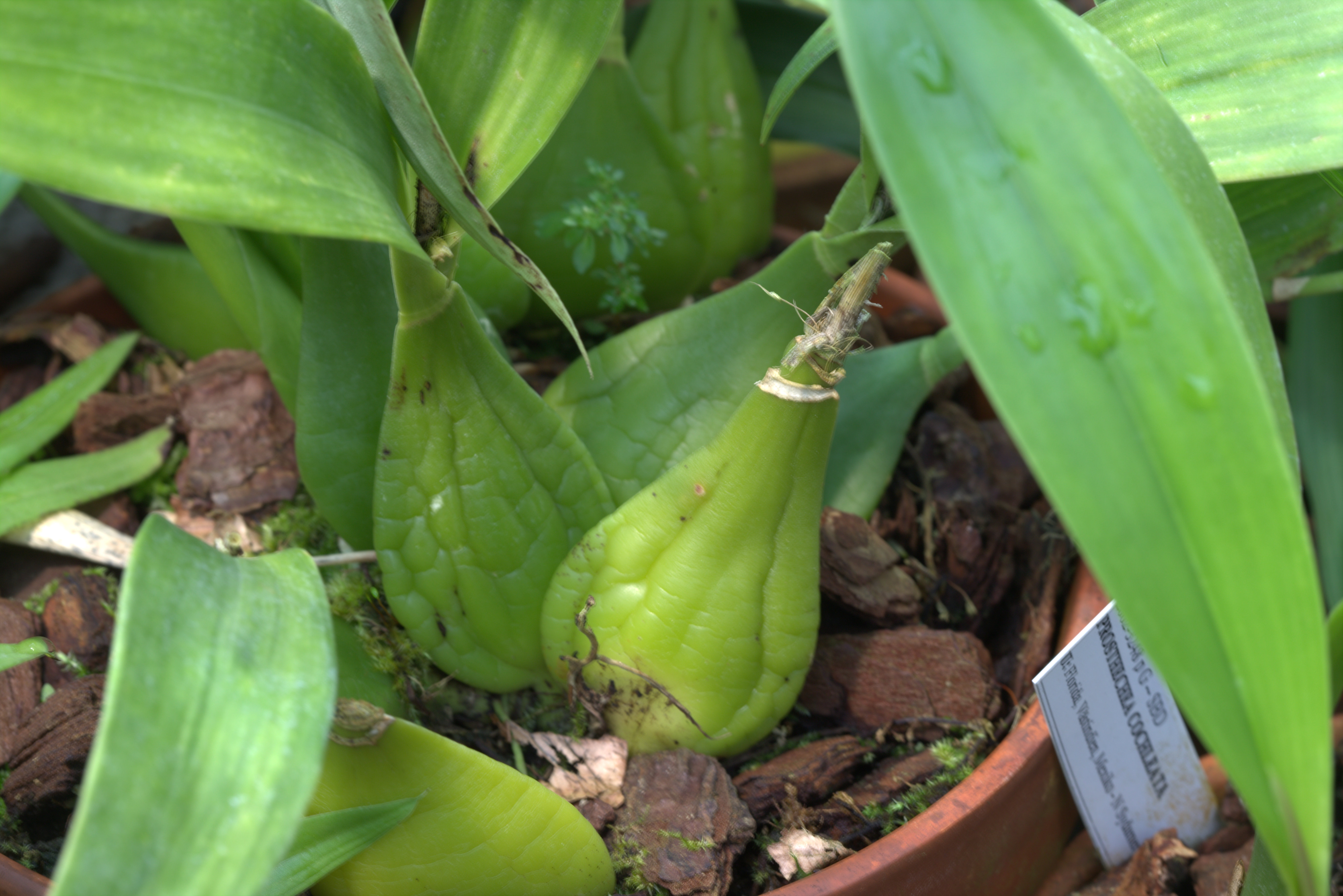 Prosthechea cochleata in Gothenburg botanical garden. Plant id: 1952-V3488 p G -- Köpenhamn